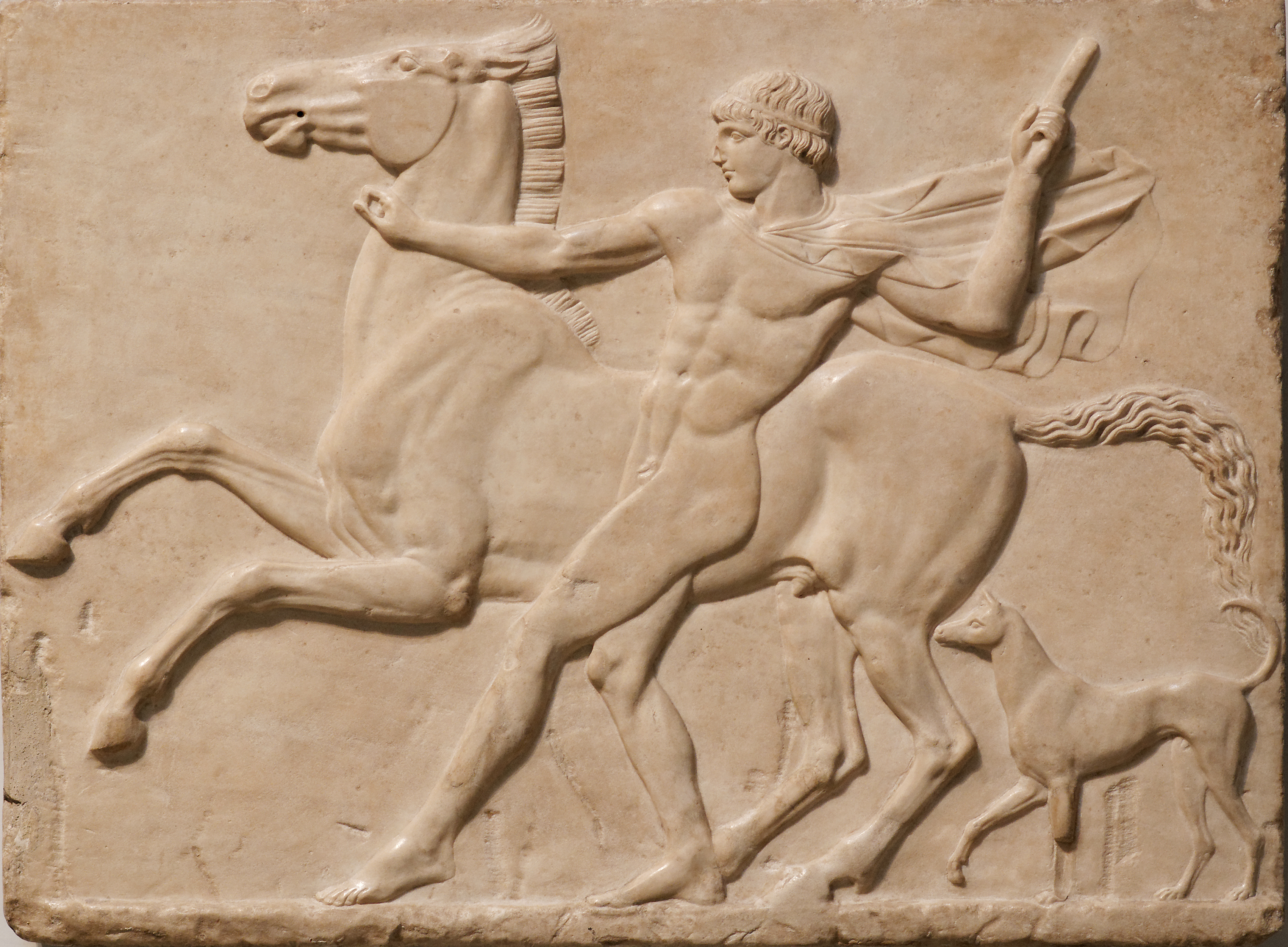 Youth with his dog, mastering a horse with a metal bridle (now lost). Marble relief, Roman artwork inspired by Greek classical models, ca. 125 AD. From the Villa Adriana, near Tivoli. Roman gallery, British Museum (London).